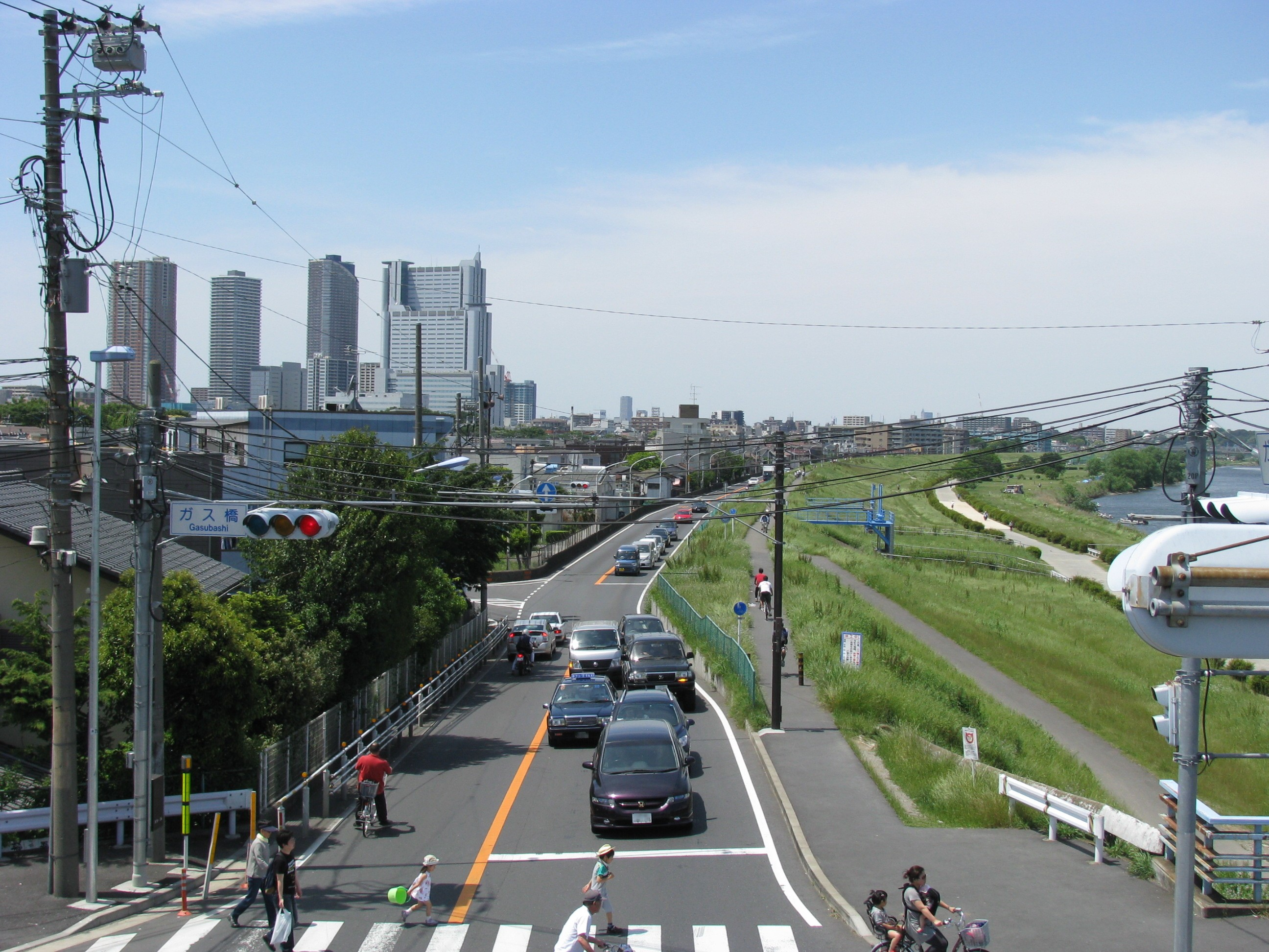 The Tama-ensen road. This located is Kami-Hirama in Nakahara-ku, Kanagawa Prefecture, Japan.